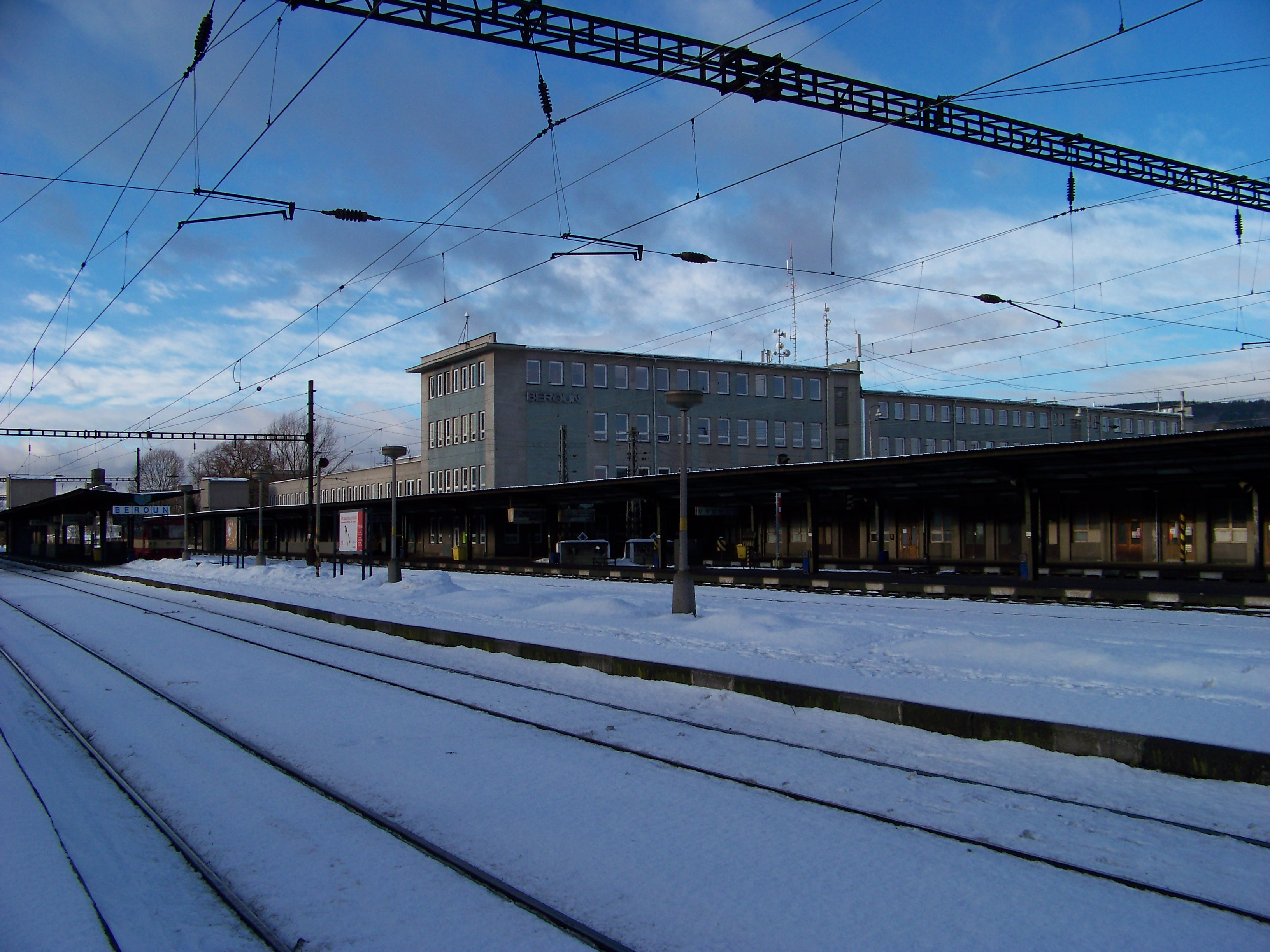 Beroun, Beroun District, Central Bohemian Region, the Czech Republic. Beroun train station.